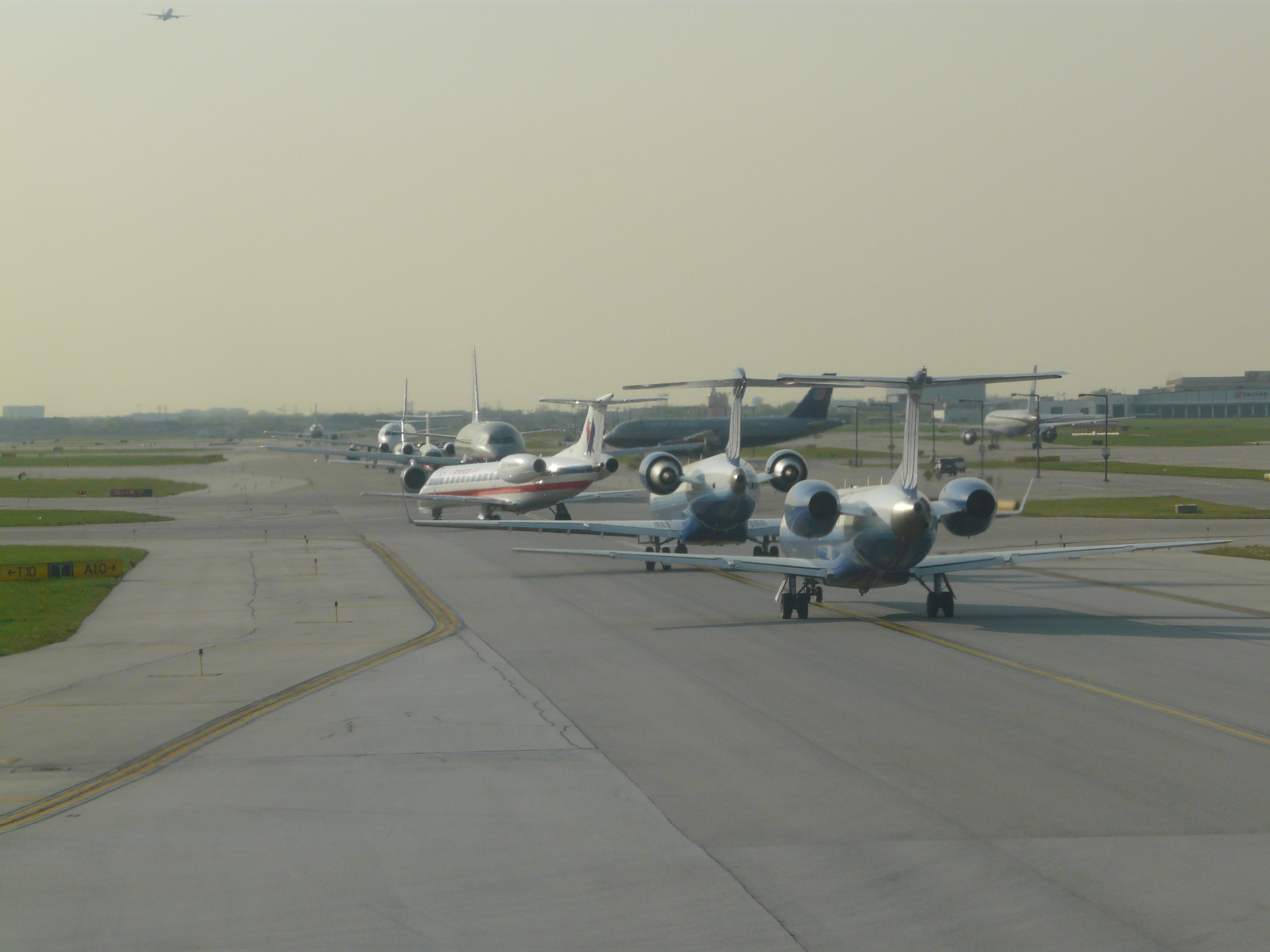 Aircrafts lined on taxiway